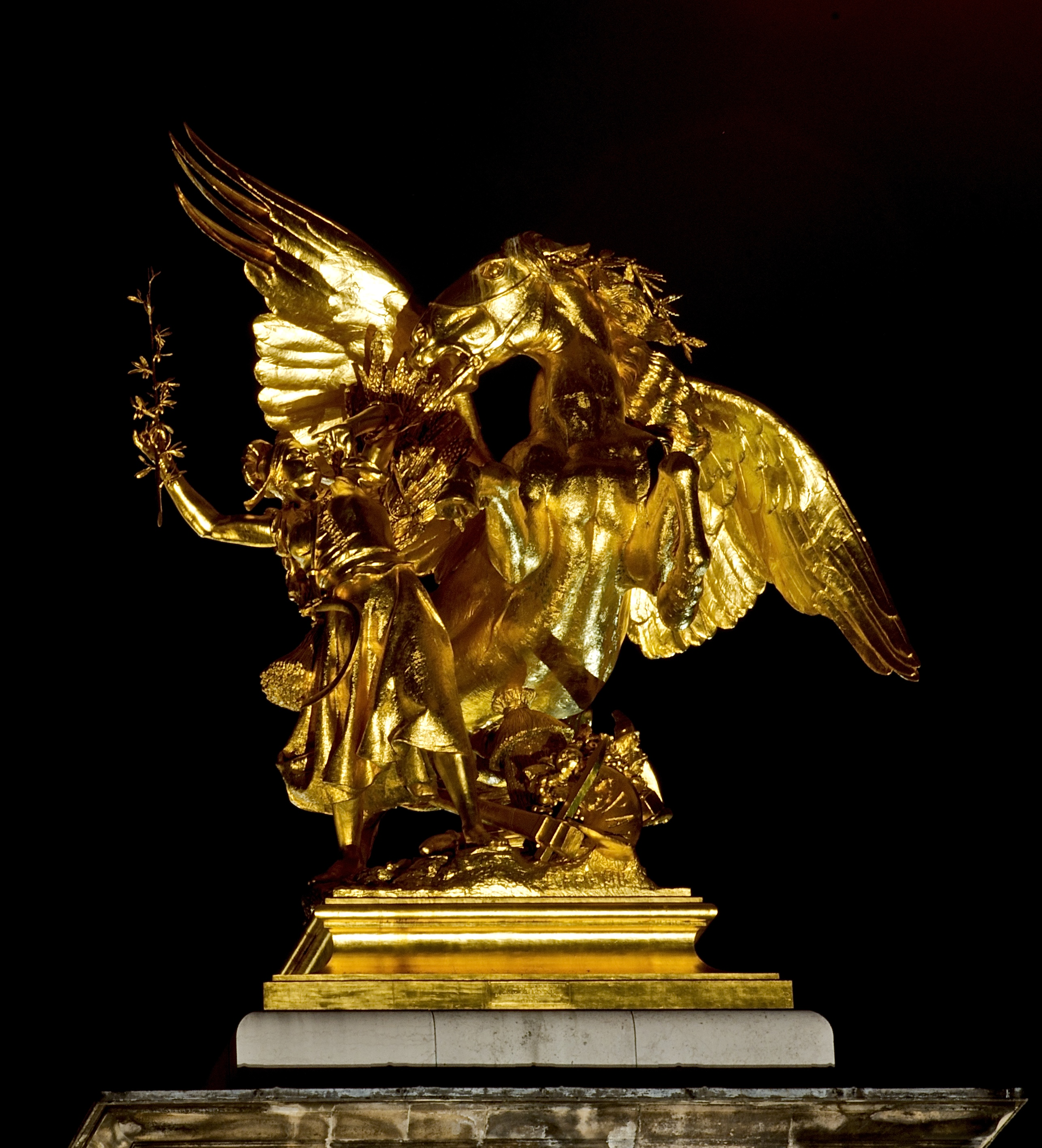 Golden statues on Pont Alexandre III